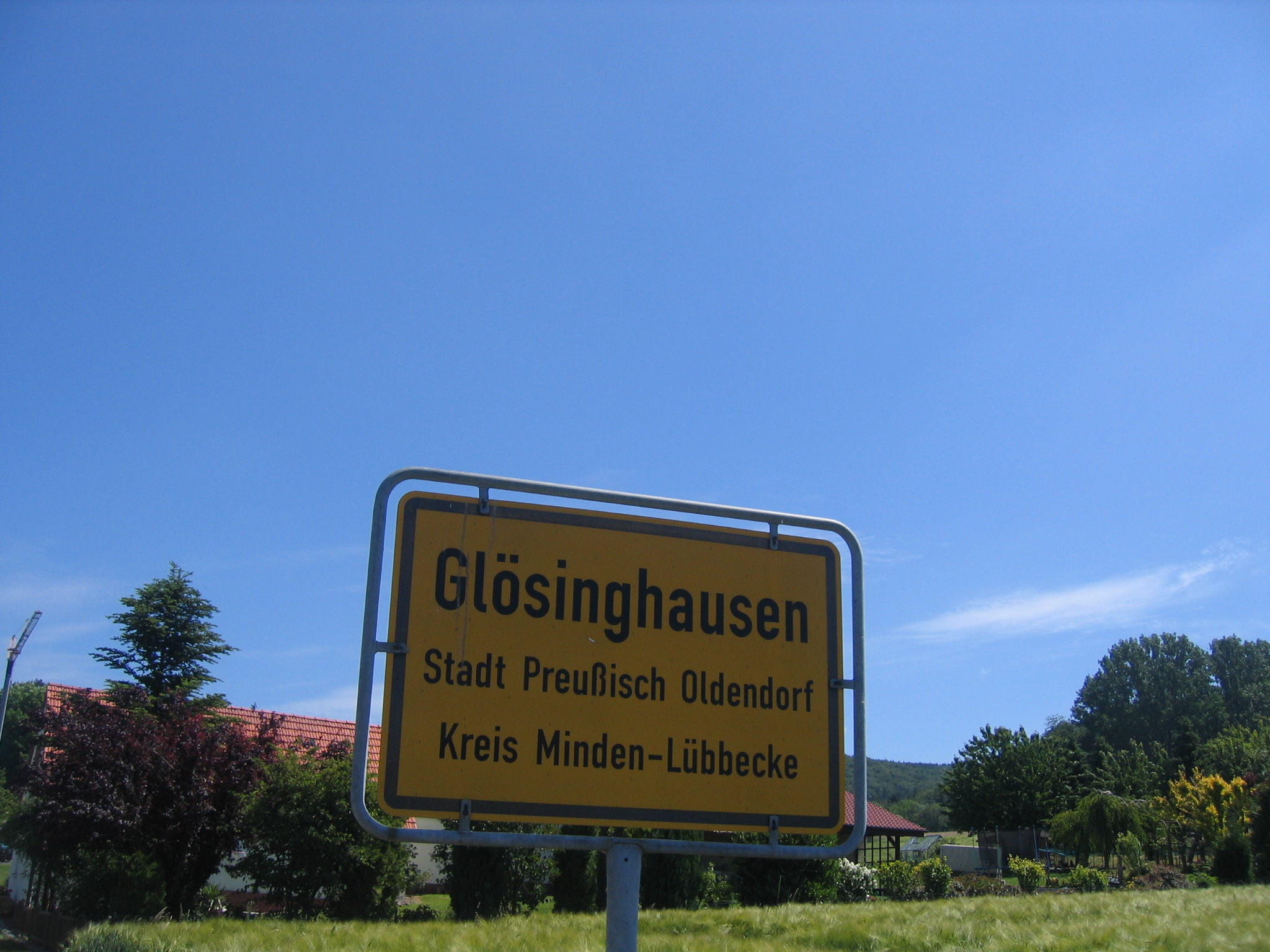 Glösinghausen city limit sign in Preußisch Oldendorf, District of Minden-Lübbecke, North Rhine-Westphalia, Germany.